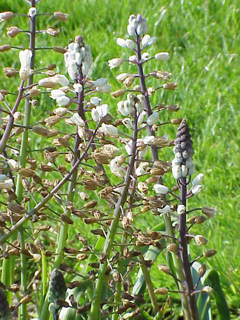 Species: Bellevalia romana Family: Hyacinthaceae Image No. 1